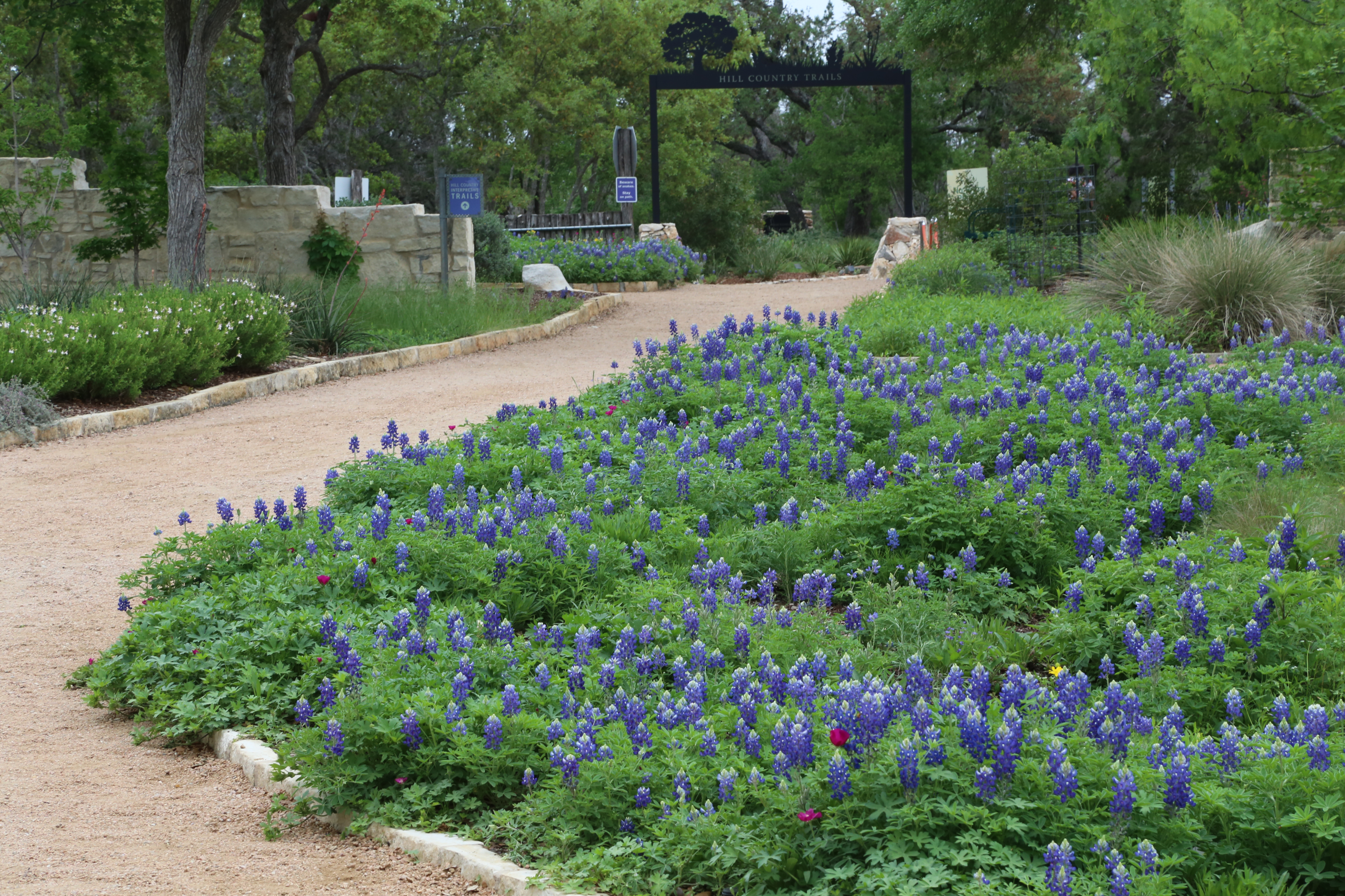 Path around bed of blooming bluebonnets (Lupinus texensis), at Lady Bird Johnson Wildflower Center, Austin, Texas USA.